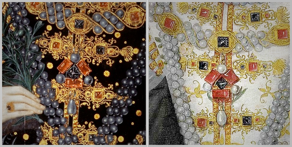 Detail of the "Three Brothers" jewel from two paintings of Elizabeth I, the "Ermine Portrait" and "Elizabeth I of England holding an olive branch"